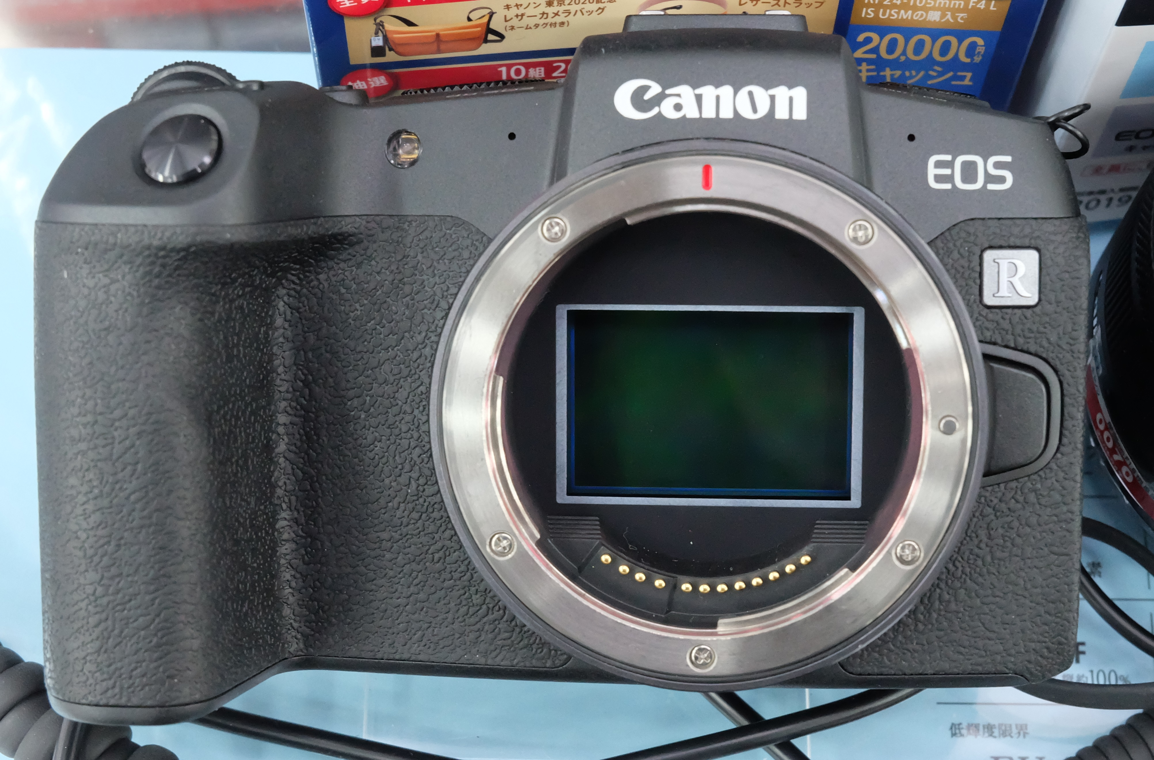 Canon EOS RP (photo taken at Yodobashi Camera)